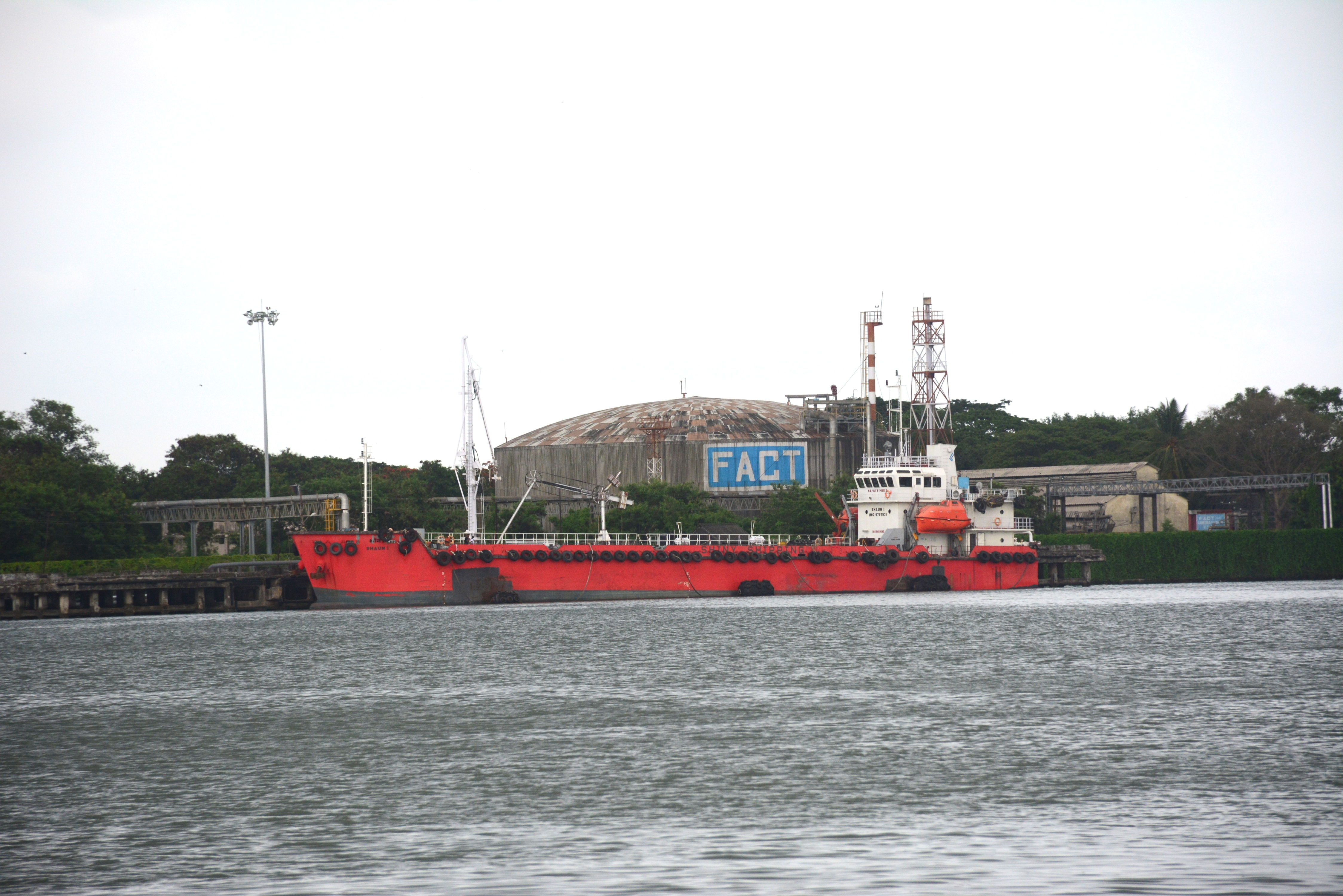 A cargo-ship docked at the dock of the FACT Ammonia handling section of Cochin Division at Willingdon Island